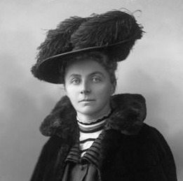 Emily Hobhouse (9 April 1860 – 8 June 1926)